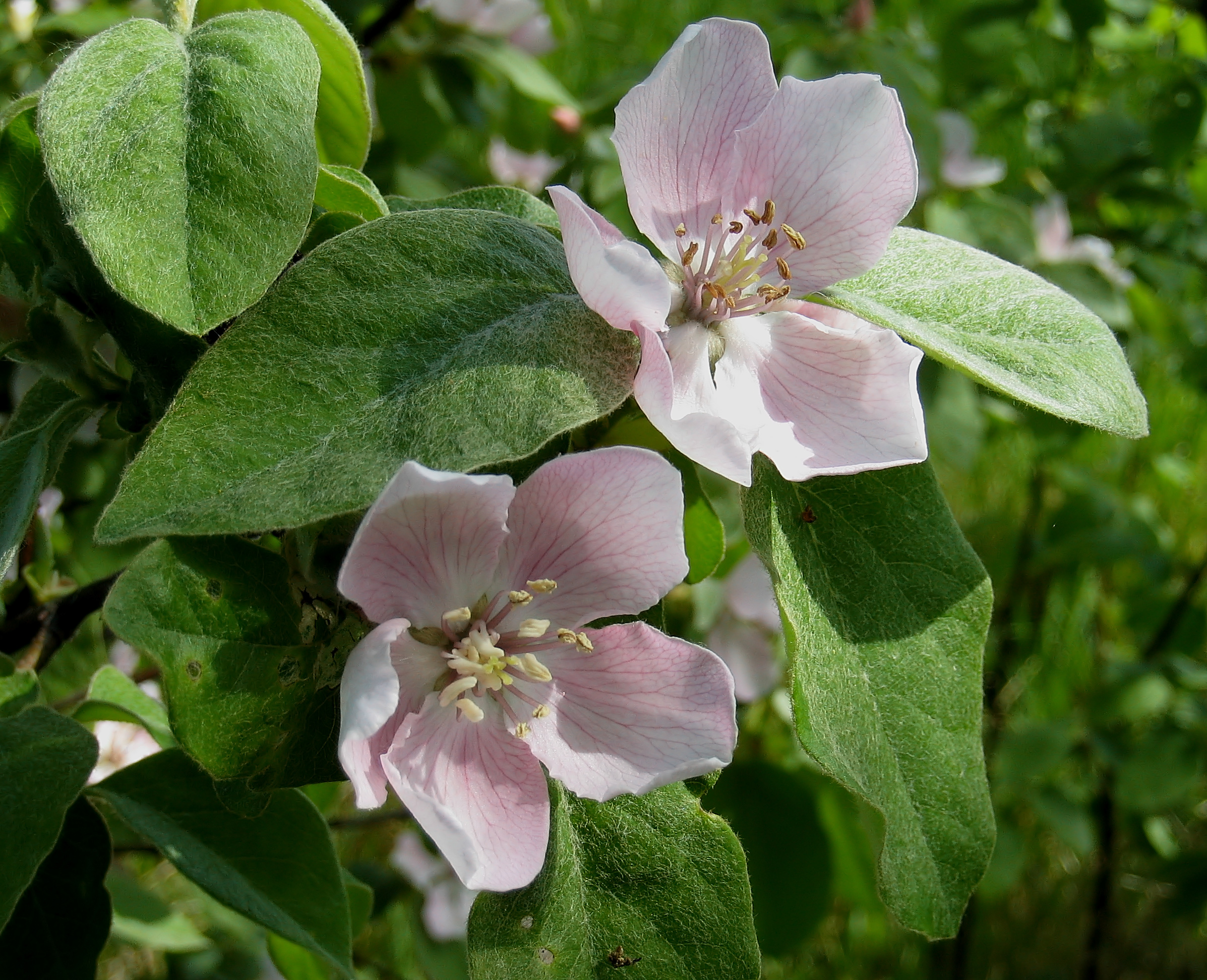 Blossoms of quince (Cydonia oblonga)